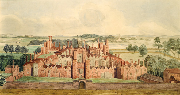 Painting of Oatlands Palace from circa 17th Century